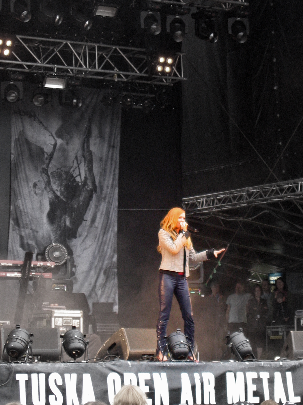 Heta Hyttinen as presenter in Tuska Open Air Metal Festival 2009